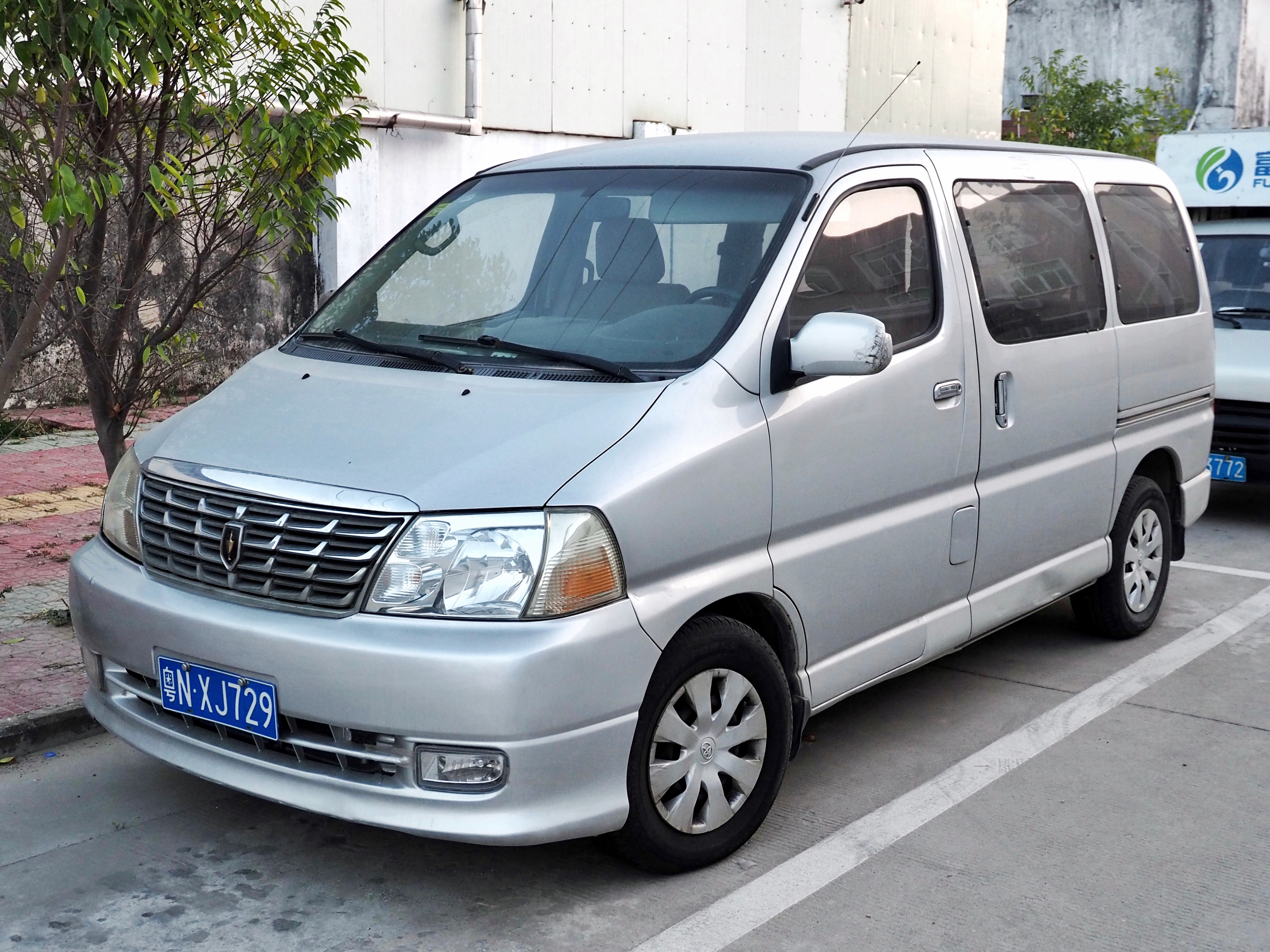 A 2005 Brilliance Jinbei Granse photographed in Shanwei, Guangdong province, China. 中文（中国大陆）: 一辆2005年的华晨金杯阁瑞斯，拍摄于中国广东省汕尾市。